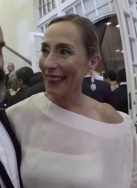 Maria João Luís (b. 1964), Portuguese actress, on the red carpet for the XXII Portuguese Golden Globes, on 21 May 2017.